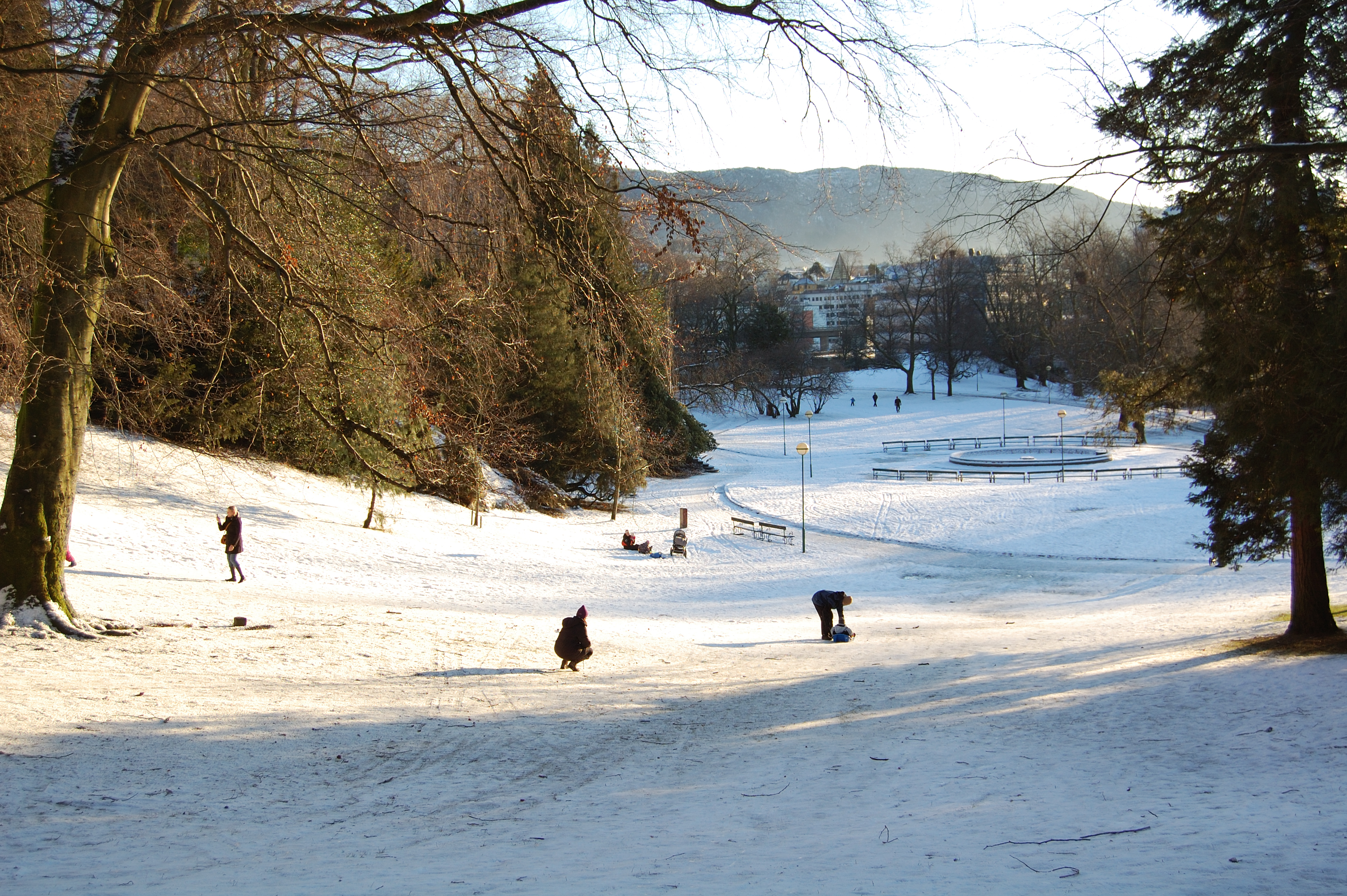 Nygårdsparken in Bergen, Norway. Photos taken during winter in January 2009.